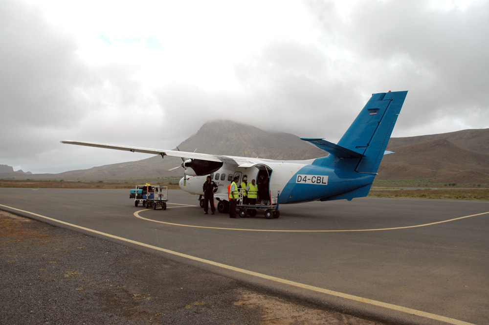 Let L-410 aircraft in service by Cape Verde by Cabo Verde Express airline. Photograph taken by Henryk Kotowski in São Nicolao island November 2005.